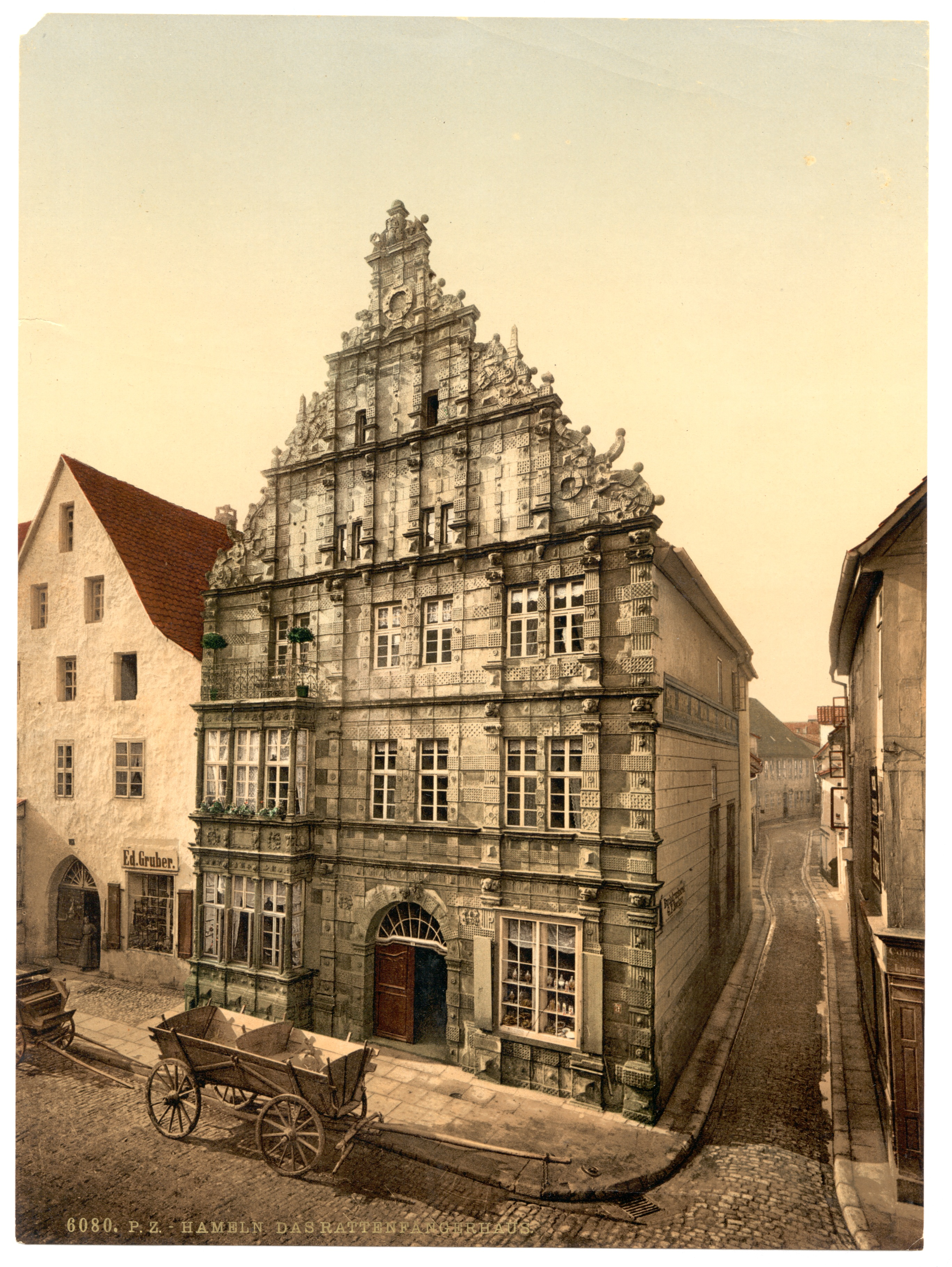 Title devised by Library staff.; Forms part of: Views of Germany in the Photochrom print collection.; Print no. "6080".